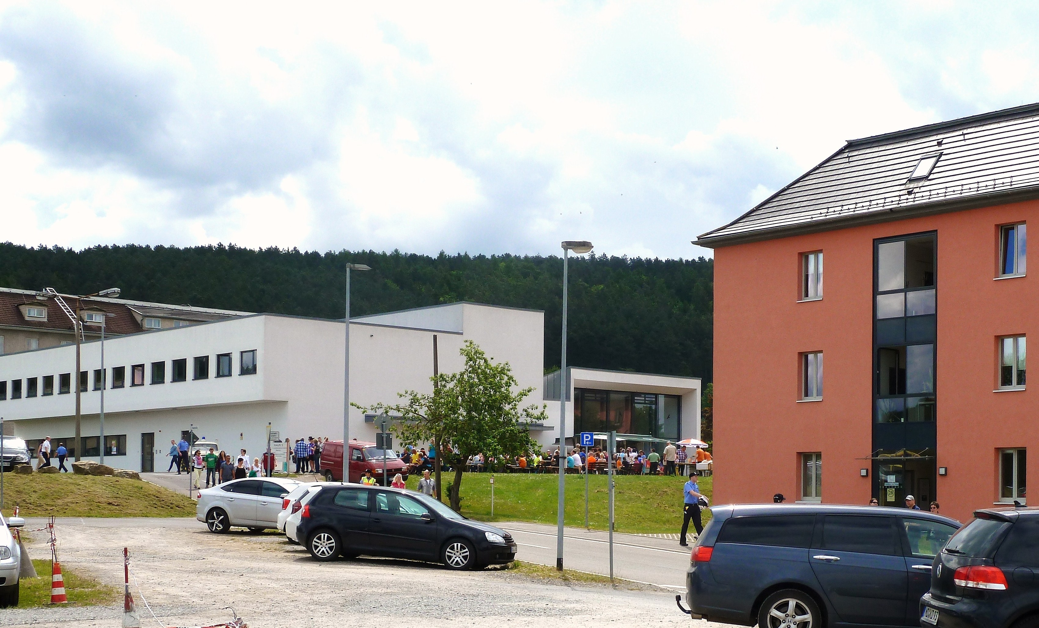 Police Academy in Meiningen, Germany.